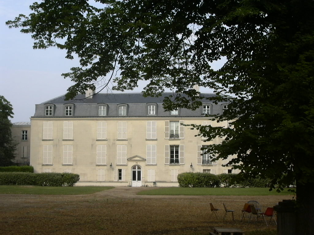 castle Le Parangon (17th century) in Joinville-le-Pont from the garden, 2005